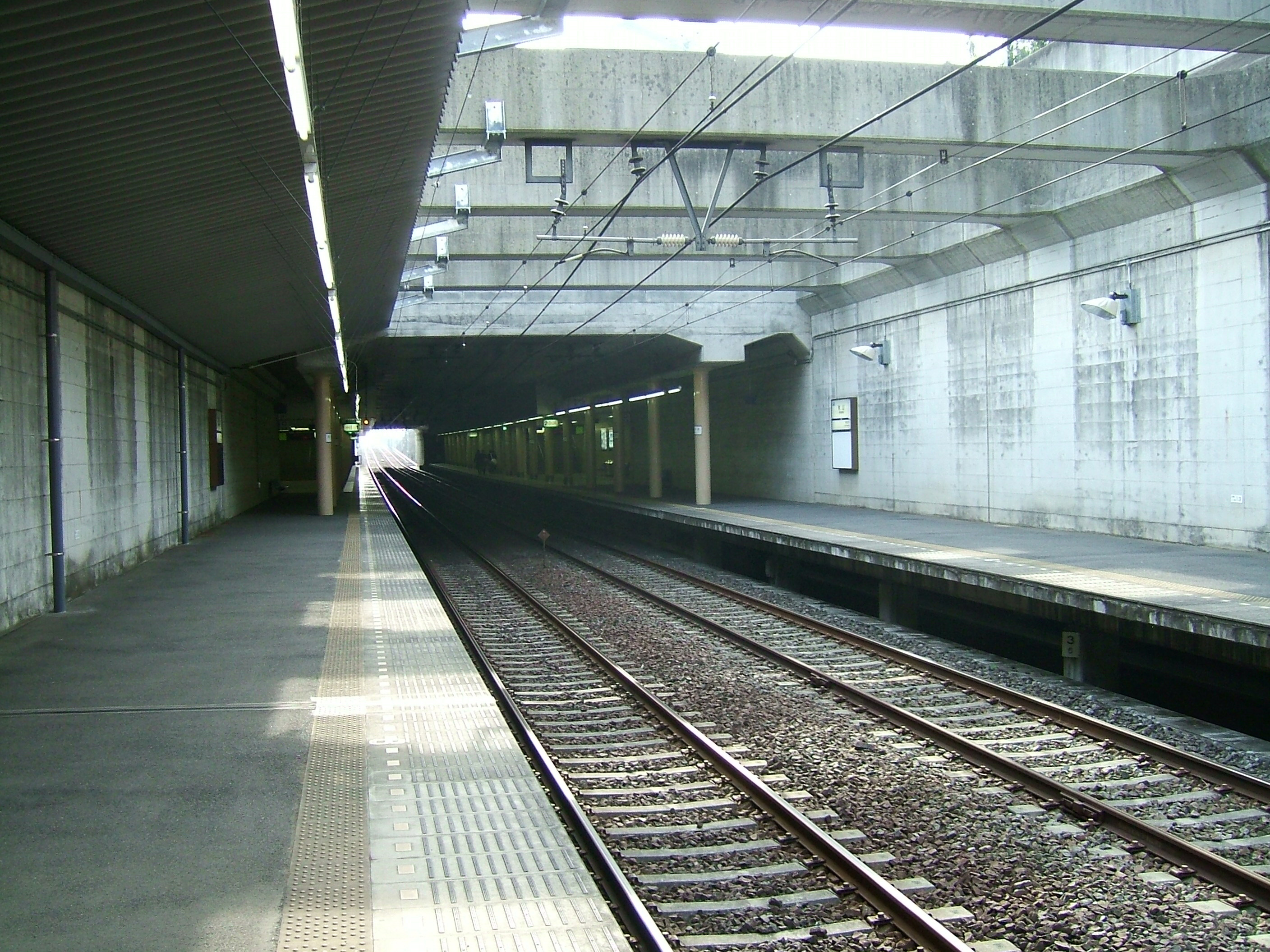 The platforms at Akiyama Station on the Hokusō Railway in Matsudo city, Chiba prefecture, Japan